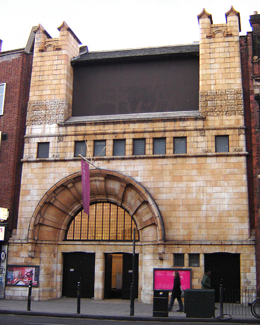 The Whitechapel Art Gallery, Whitechapel High Street, Tower Hamlets, London (closed for refurbishment). 28 November 2005. Photographer: Fin Fahey.